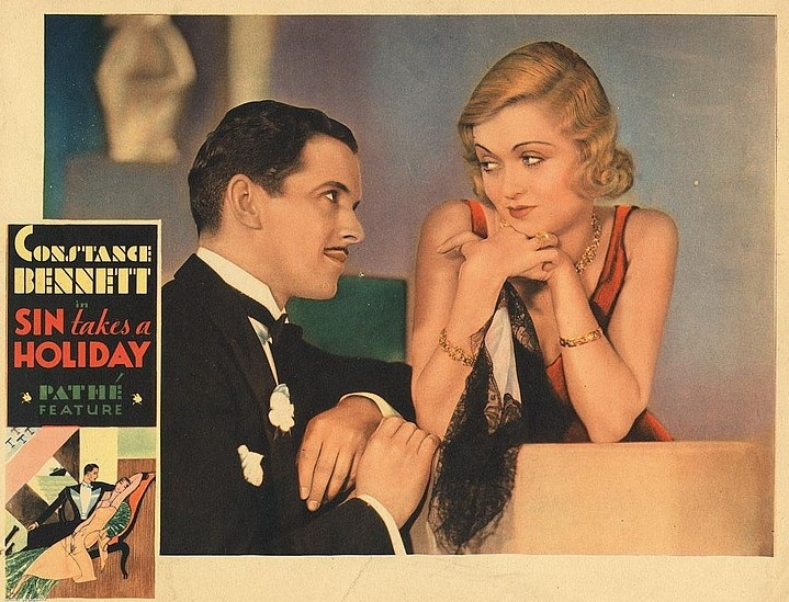 Sin Takes a Holiday, lobby card (cropped) with Kenneth MacKenna & Constance Bennett